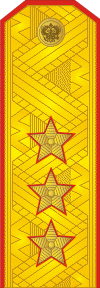 Rank insignia of the Russian federation’s armed forces, here "Colonel general" (OF8) Army – shoulder strap dress uniform (1994 – 2010).